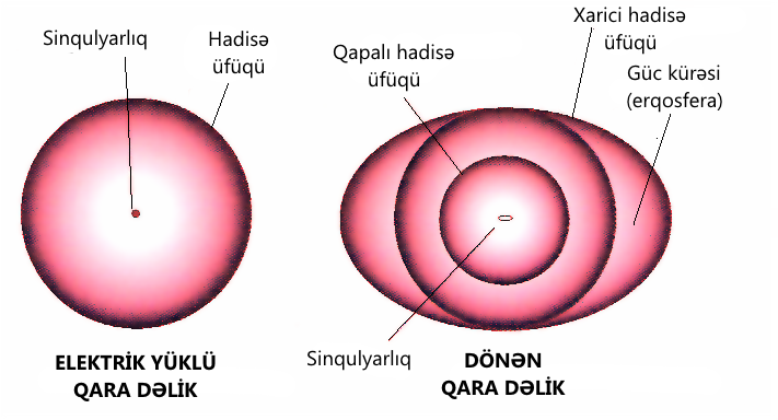 Event horizon (black hole)